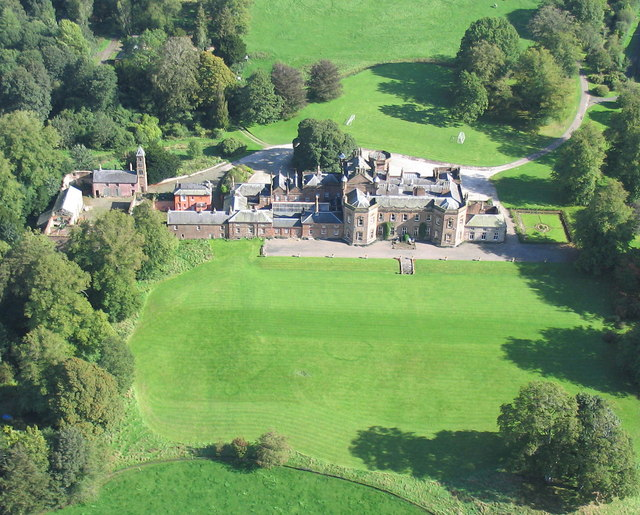 Netherby Hall Mid-18th century and features in the novels of Sir Walter Scott.